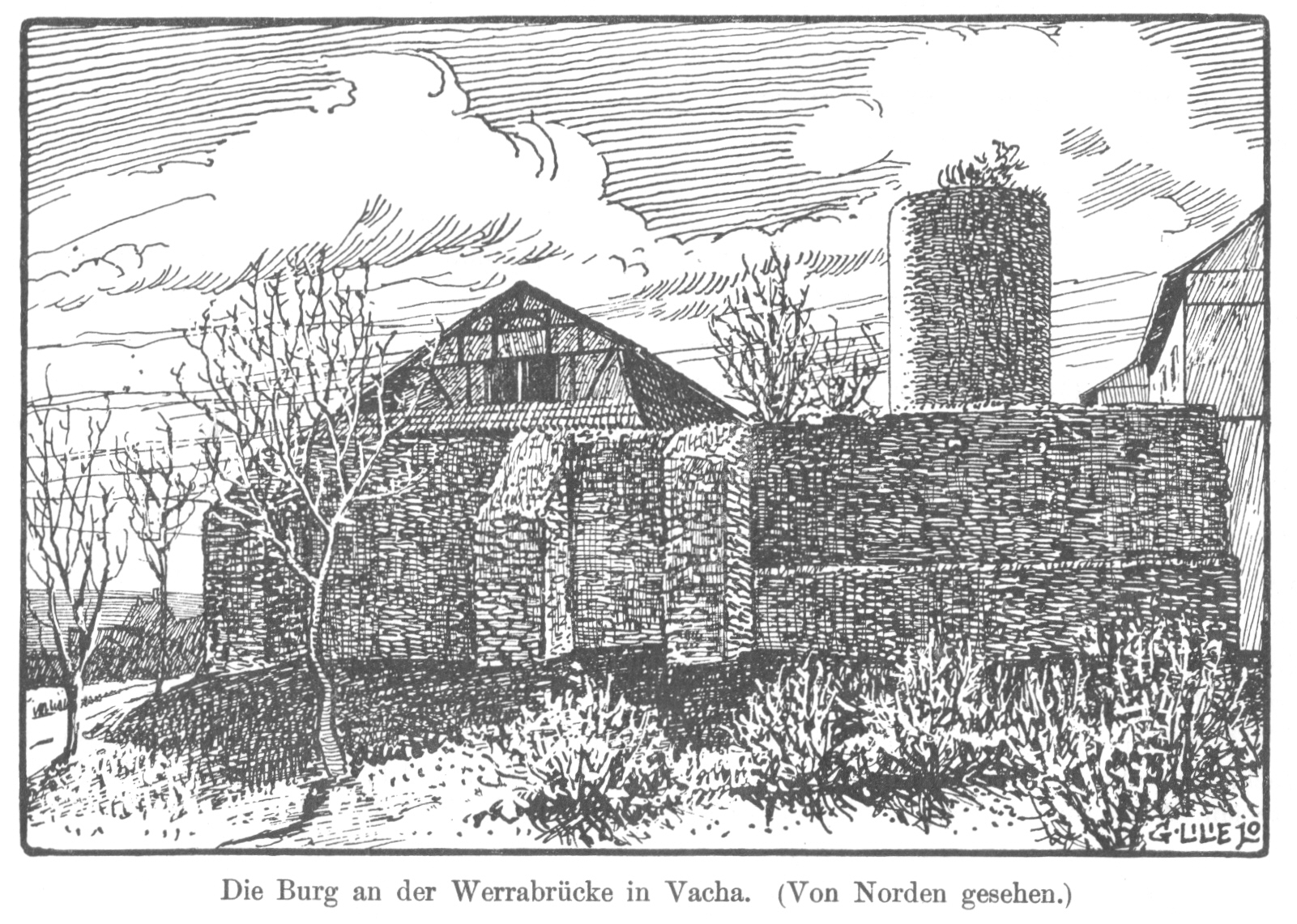 The Wendelstein - a castle in Vacha.